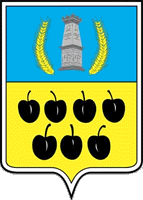 Coats of arms of Nedryhajlivskij district (Ukraine)